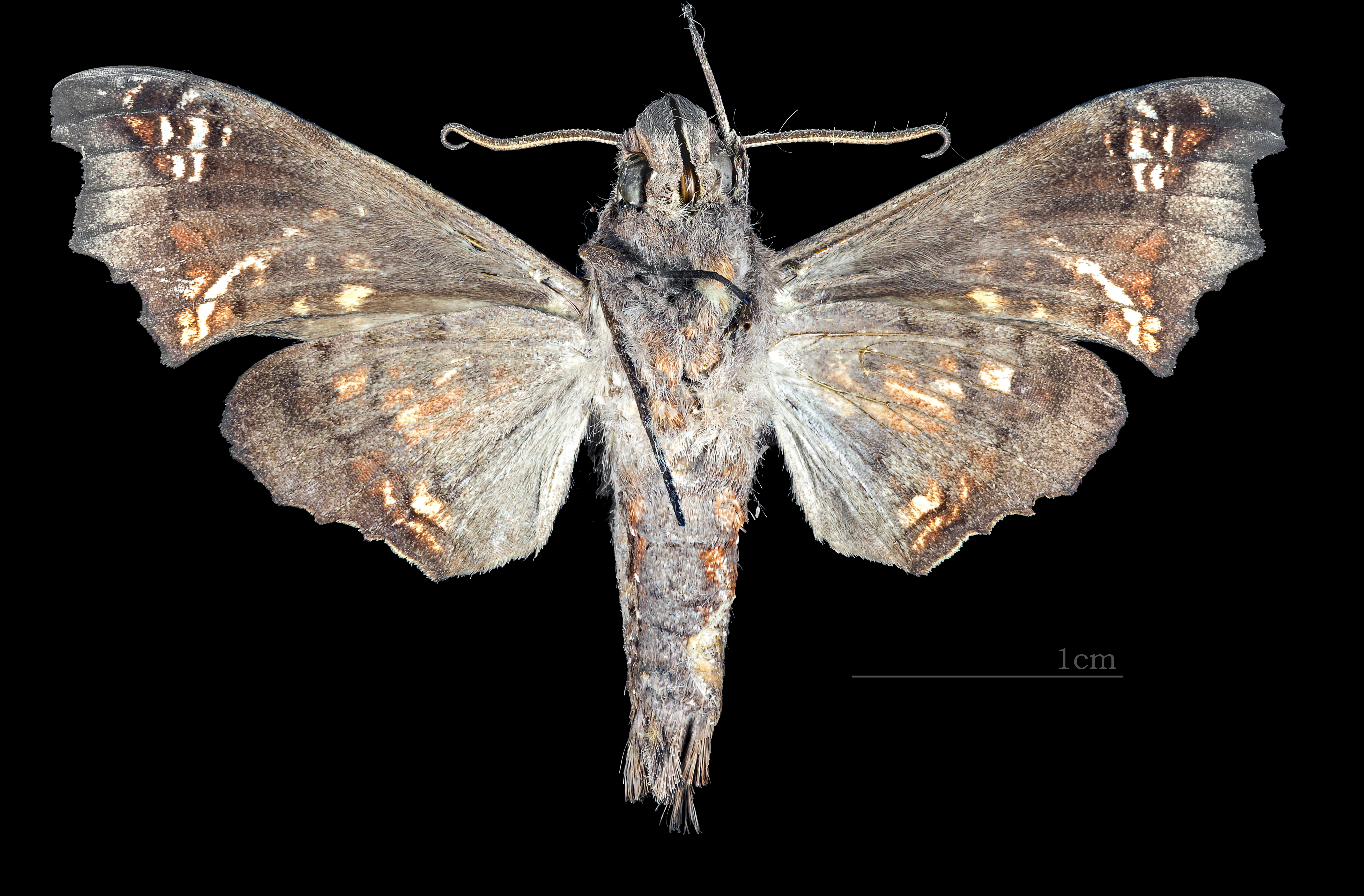 Nyceryx ericea - △ Ventral side Collection of the Mathematician Laurent Schwartz